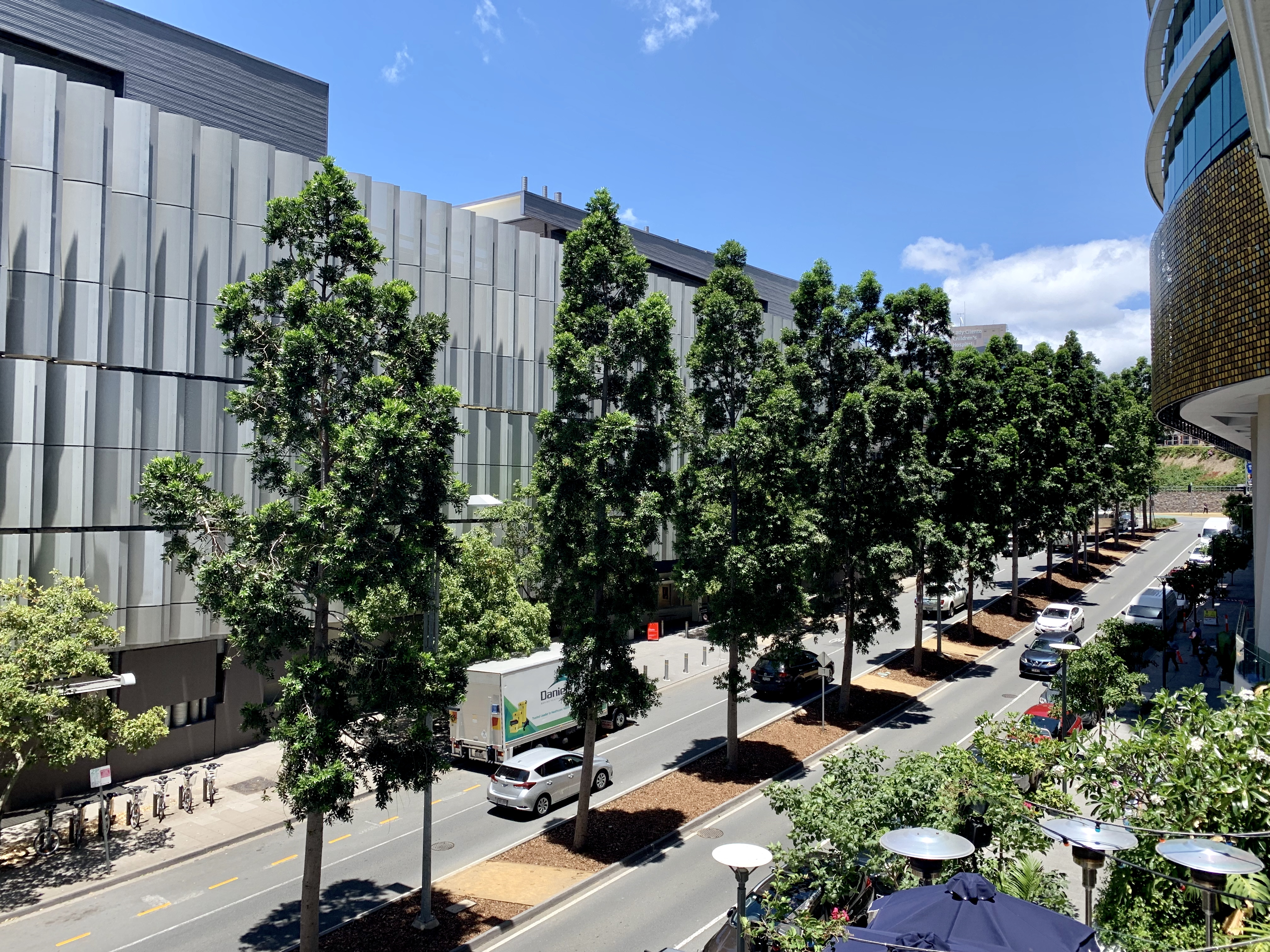 Grey Street, South Brisbane